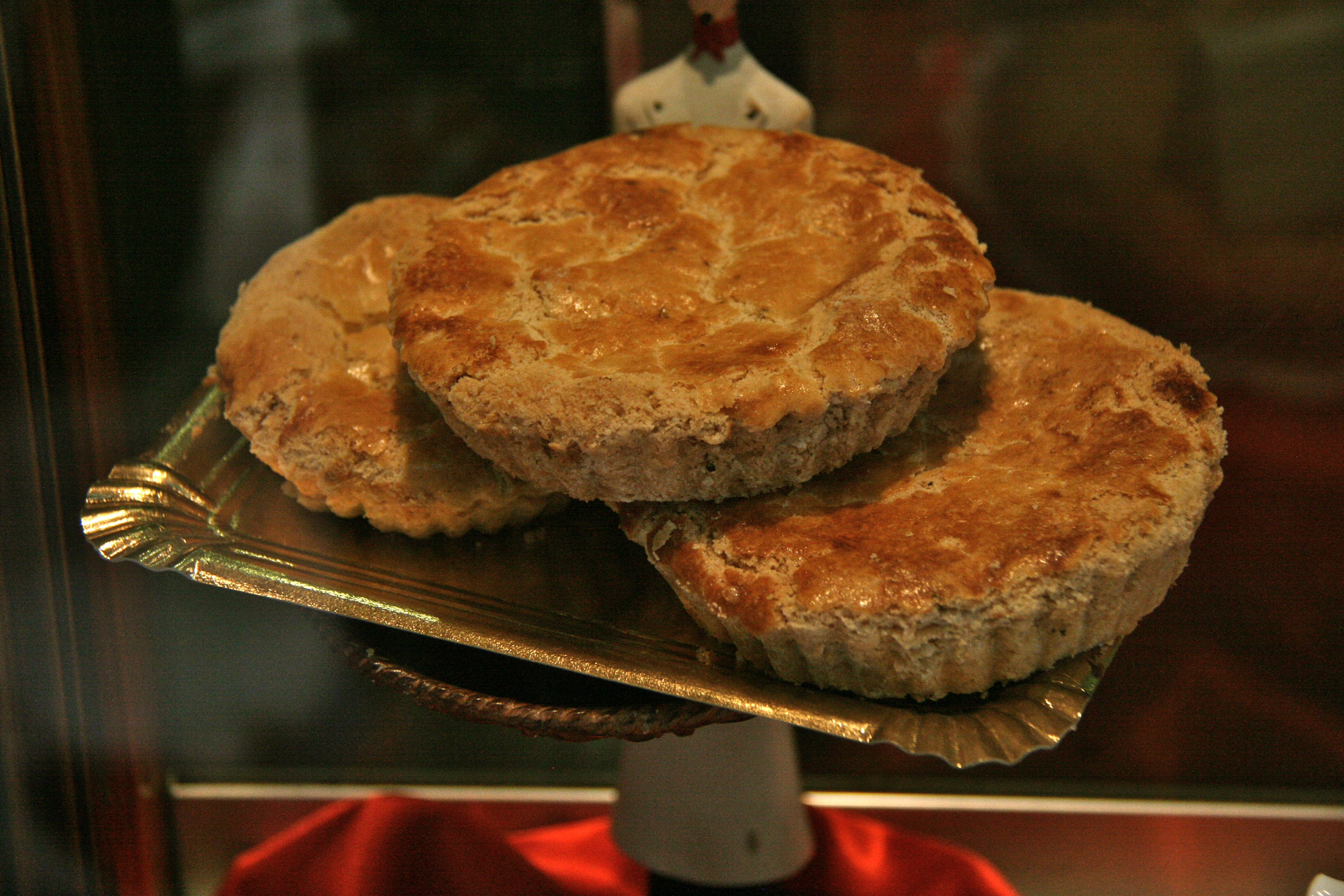 Cierva's cake, typical product of Mar Menor (Region of Murcia)